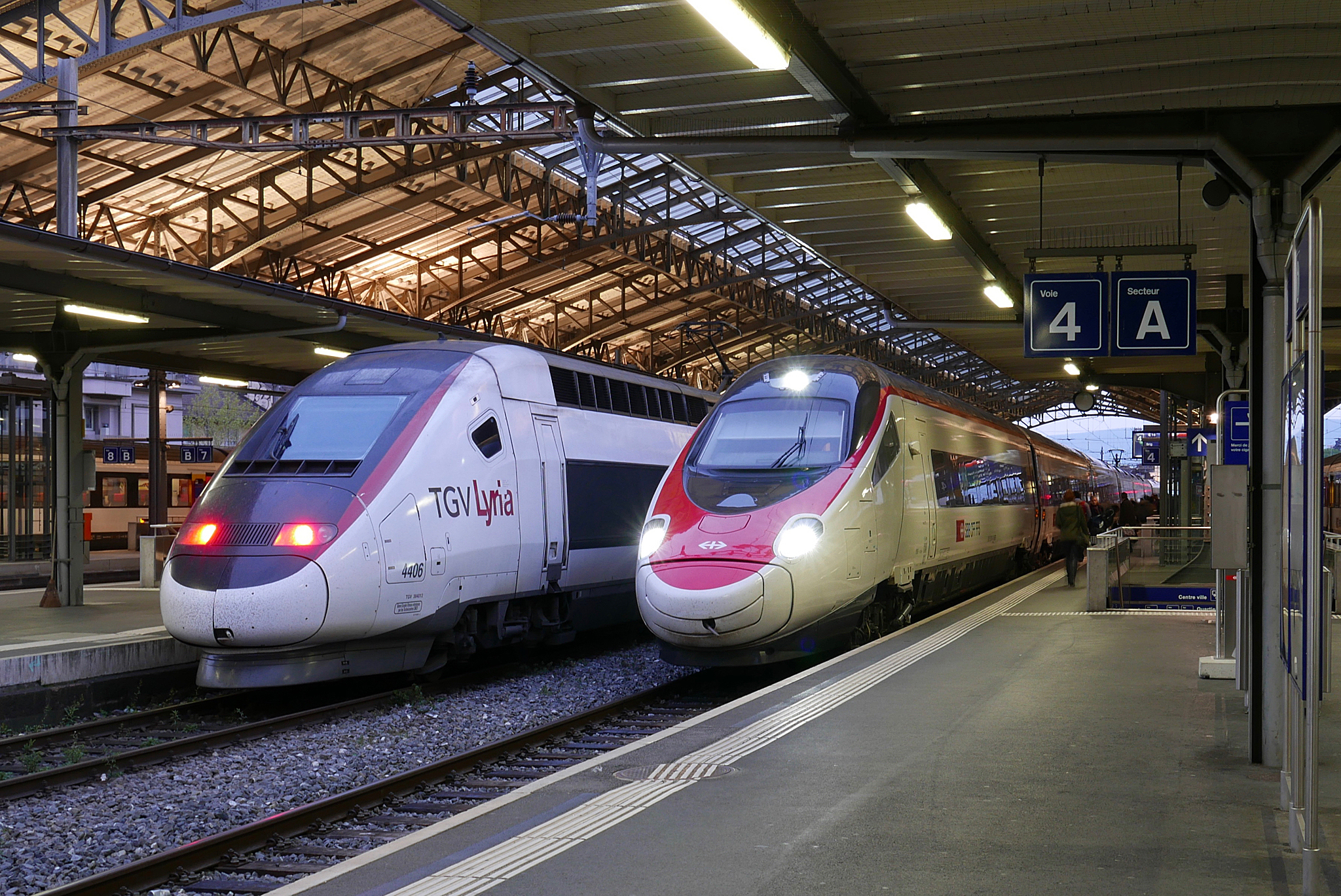 SBB CFF FFS TGV 4406 and RABe 503 014 at Lausanne train station. The former is ready to leave the station as TGV 9260 to Paris-Gare de Lyon, the latter is en route from Genève to Milano C.le as EuroCity 35.